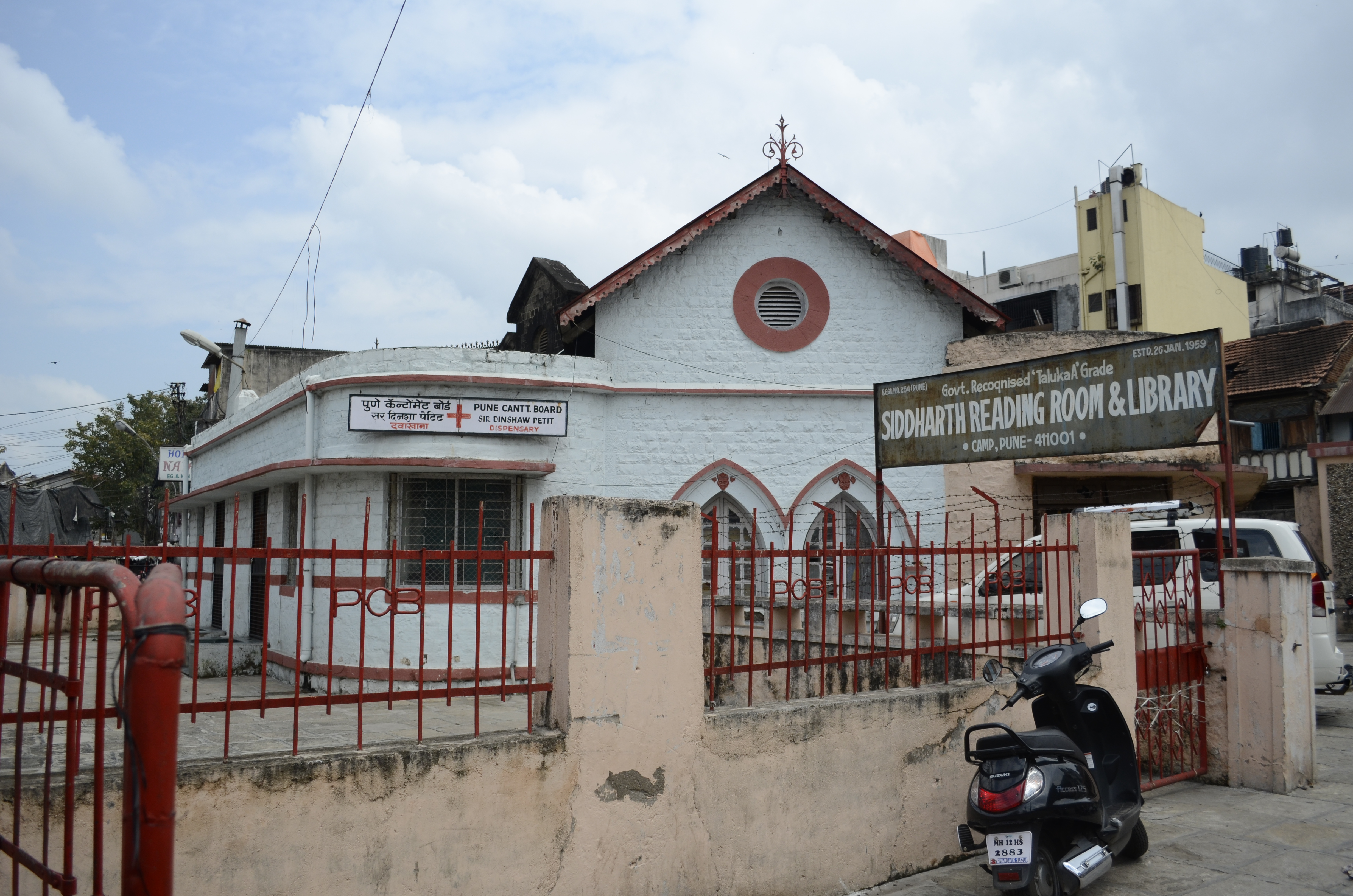 Siddharth Readin House in camp